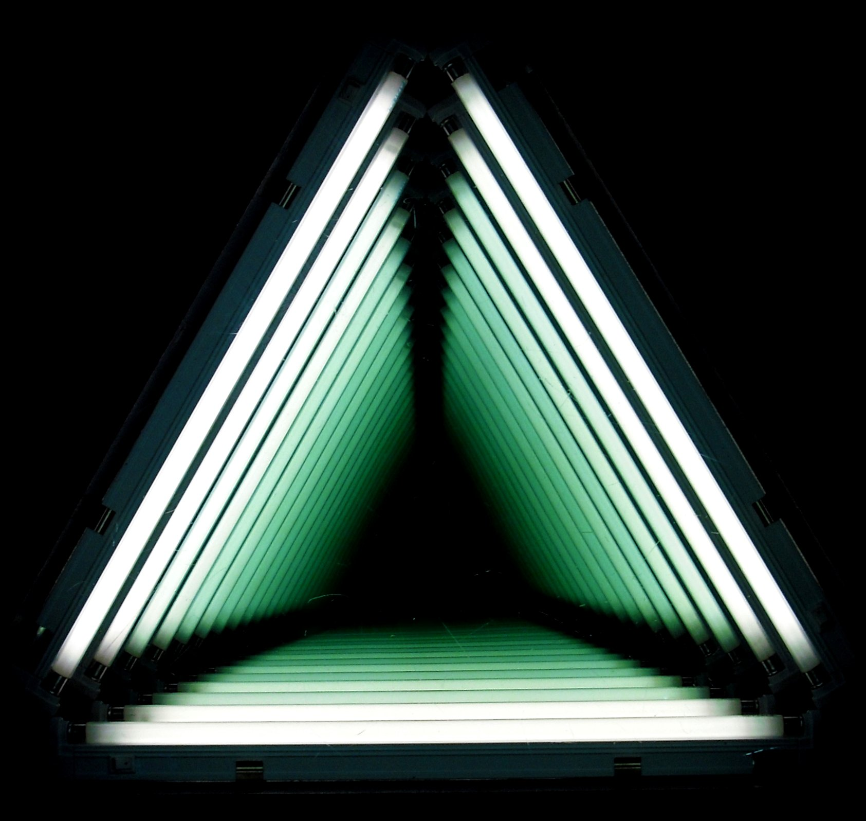 Ivan Navarro's "Die Again"